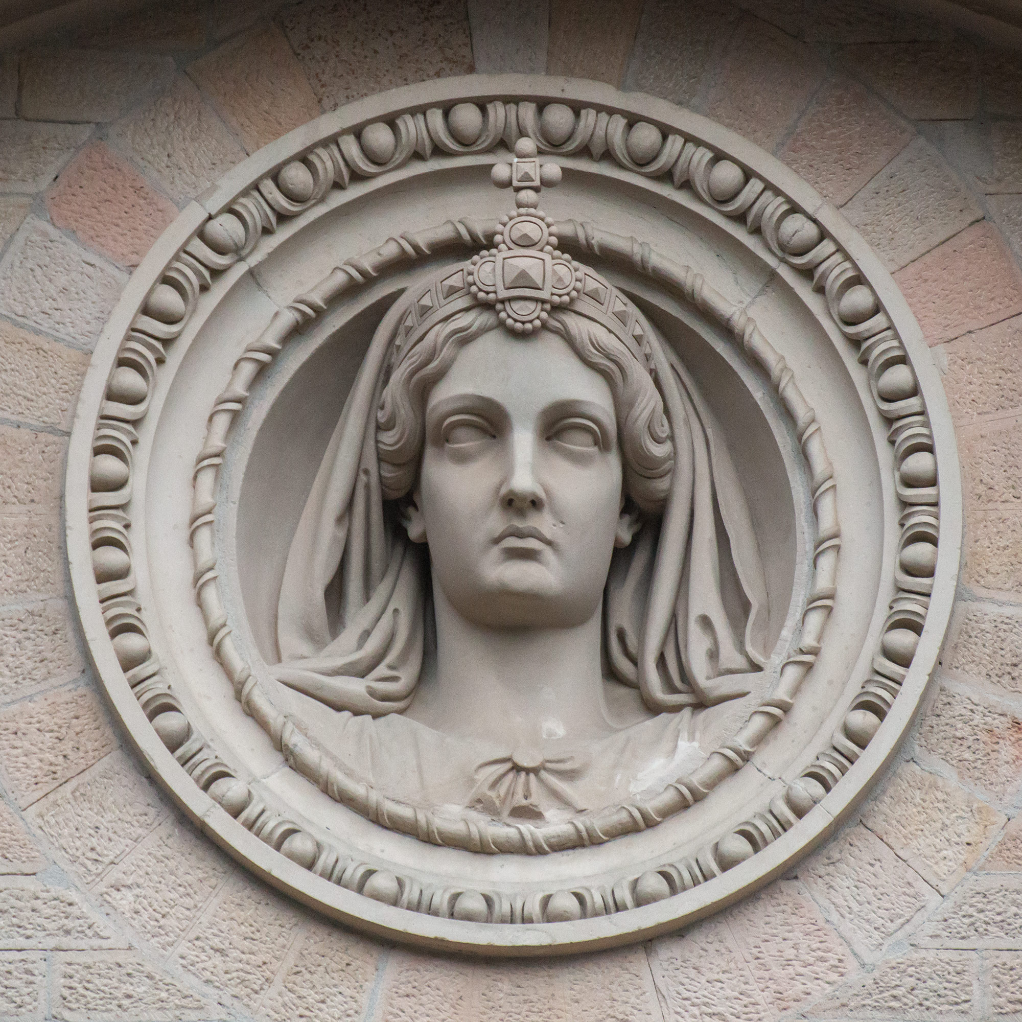 Saint Helena, Medallion at the Russian Orthodox Church of Saint Elizabeth in Wiesbaden